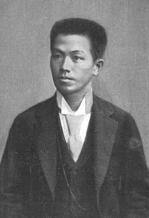 Younger Emilio Aguinaldo